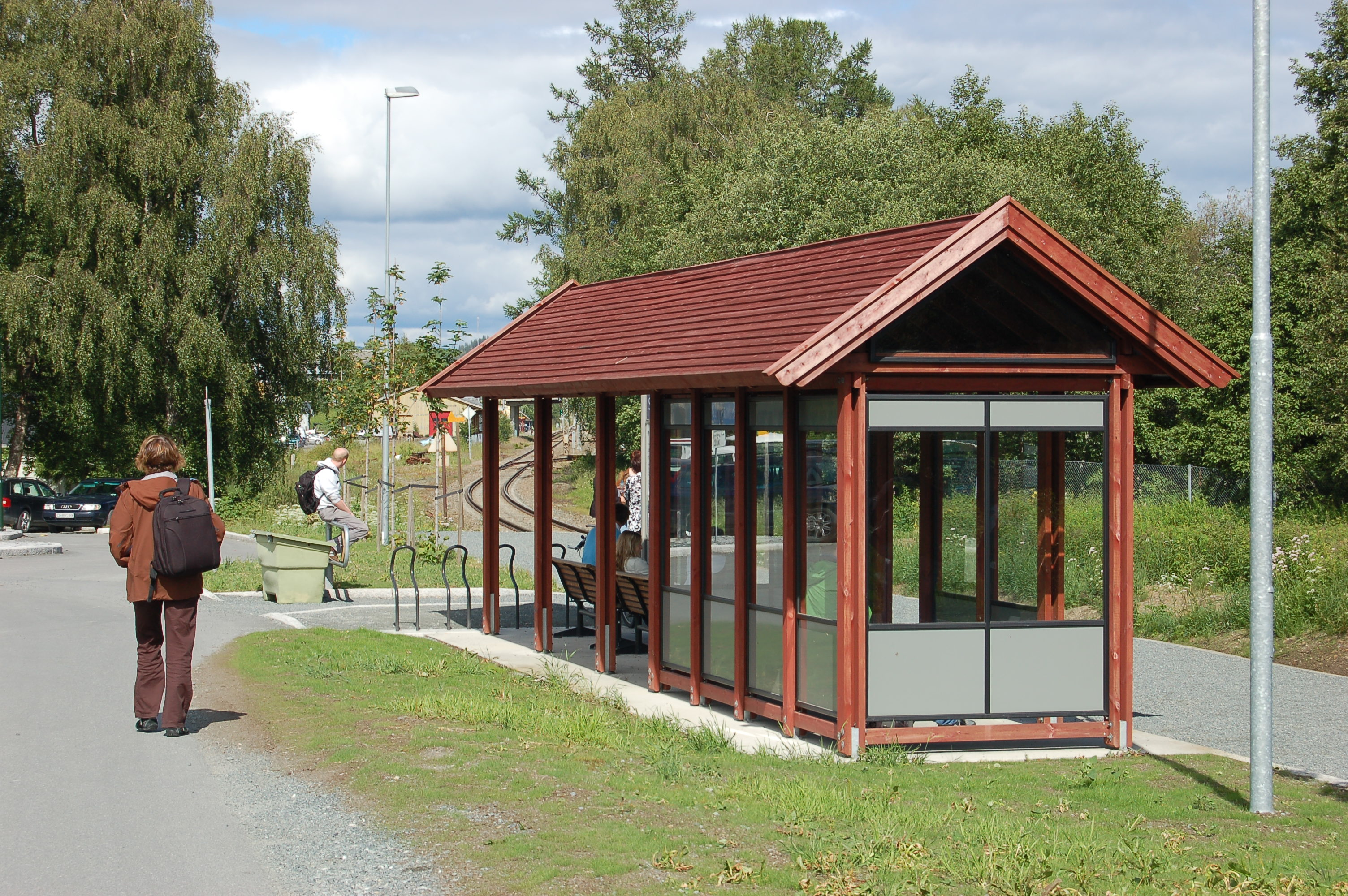 Sykehuset Levanger Station on Nordlandsbanen, in Levanger, Norway, next to Levanger Hospital.